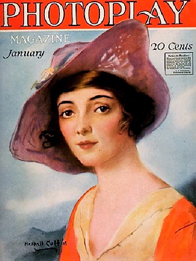 Marie Doro by Haskell Coffin, 1919